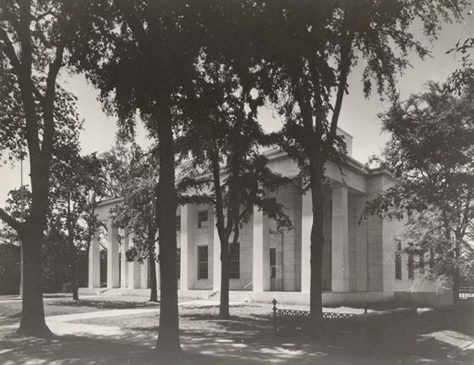 U.S. Post Office and Court House (1942) Athens (Clarke County, Georgia) cropped This work is in the public domain in the United States because it is a work prepared by an officer or employee of the United States Government as part of that person’s official duties under the terms of Title 17, Chapter 1, Section 105 of the US Code. Note: This only applies to original works of the Federal Government and not to the work of any individual U.S. state, territory, commonwealth, county, municipality, or any other subdivision. This template also does not apply to postage stamp designs published by the United States Postal Service since 1978. (See § 313.6(C)(1) of Compendium of U.S. Copyright Office Practices). It also does not apply to certain US coins; see The US Mint Terms of Use. This file has been identified as being free of known restrictions under copyright law, including all related and neighboring rights.